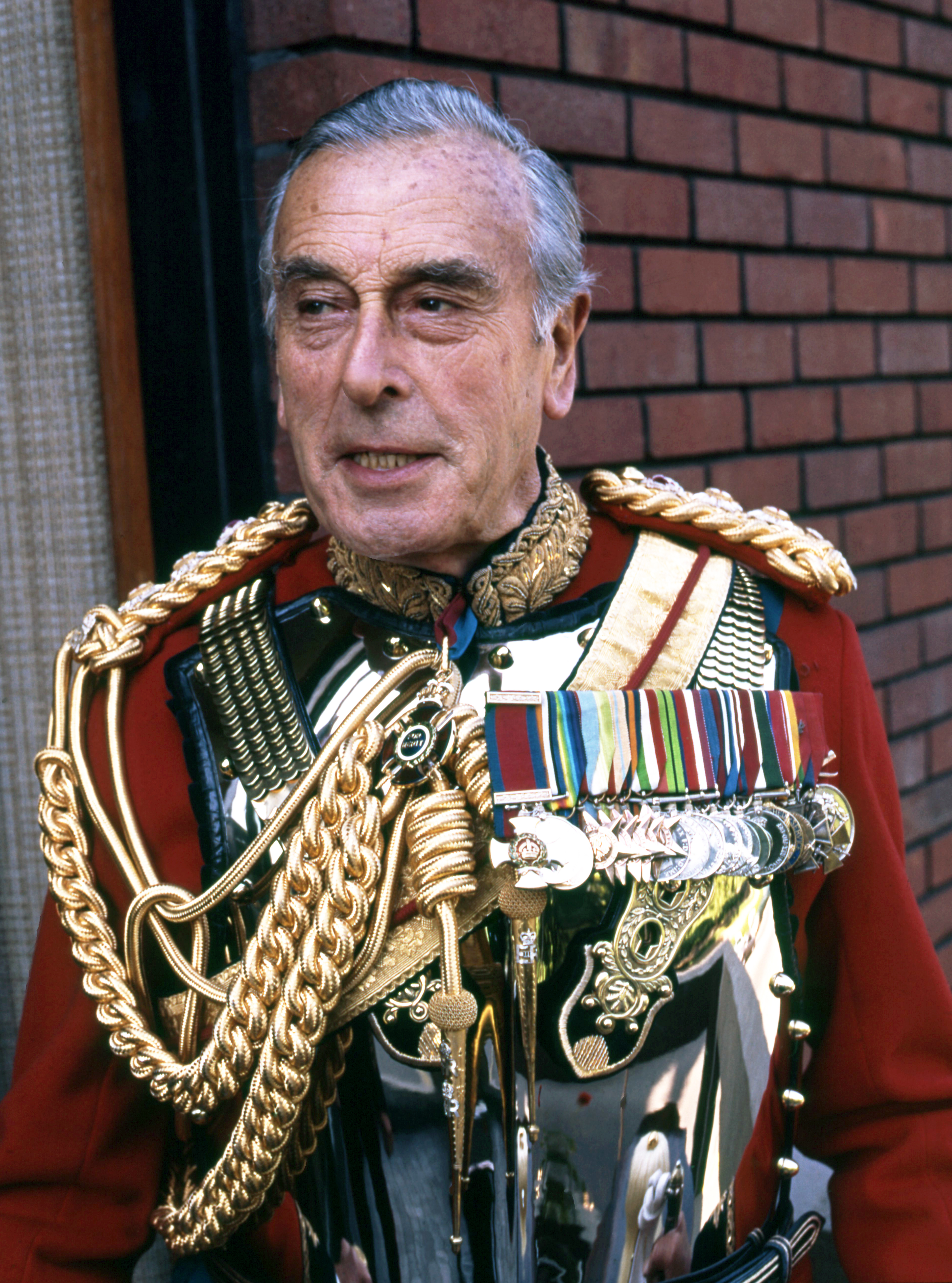 Earl Mountbatten of Burma in uniform of Colonel in Chief of the Household Cavalry in London